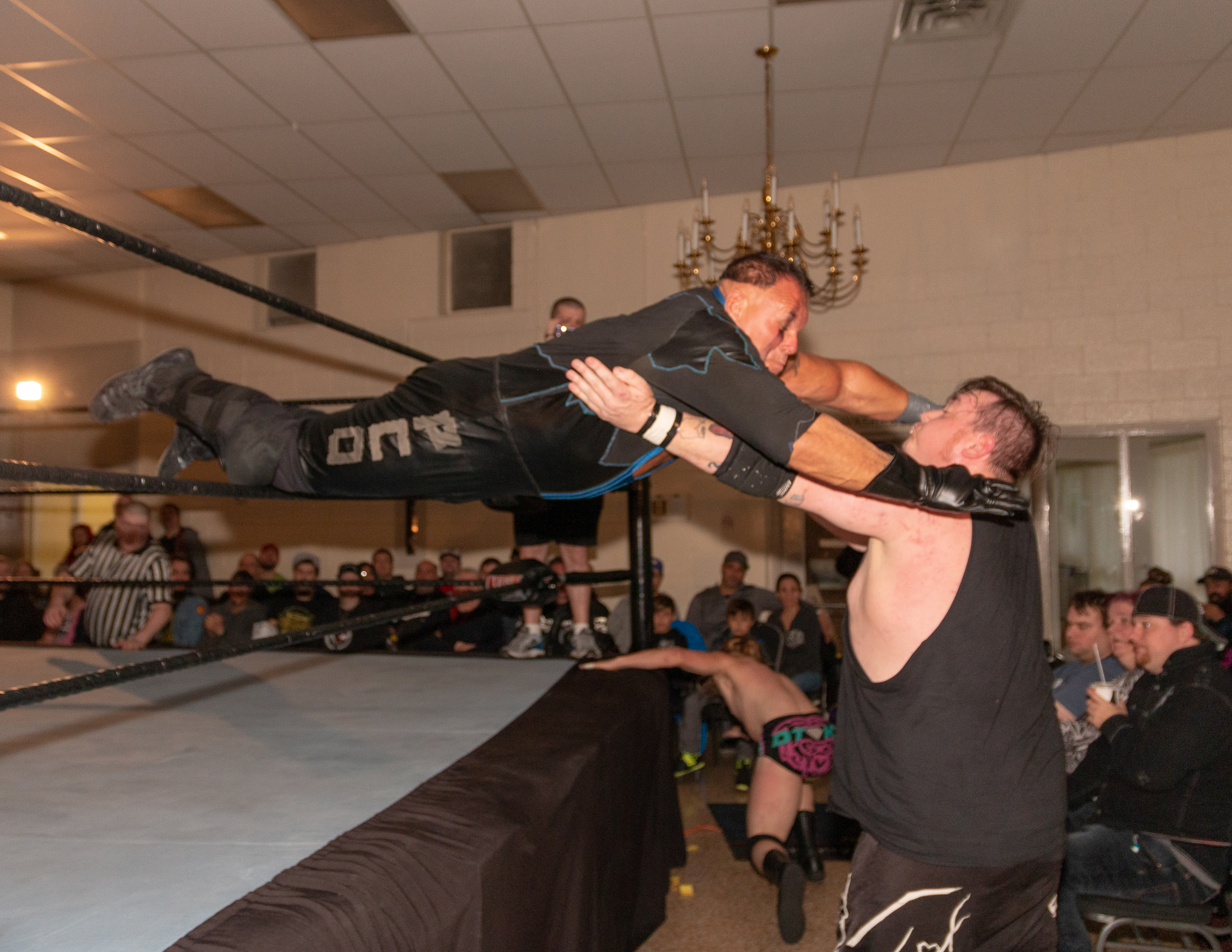 Indy wreslter PCO doing a dive onto Rickey Shane Page